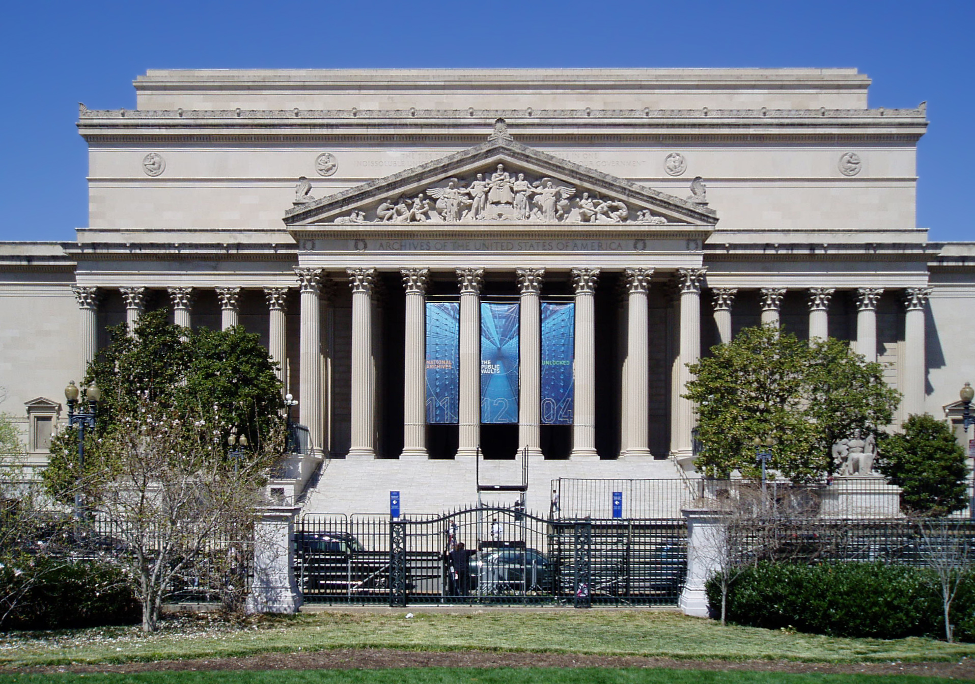 The main building of the National Archives and Records Administration of the United States, located at 700 Pennsylvania Avenue NW in Washington, D.C.